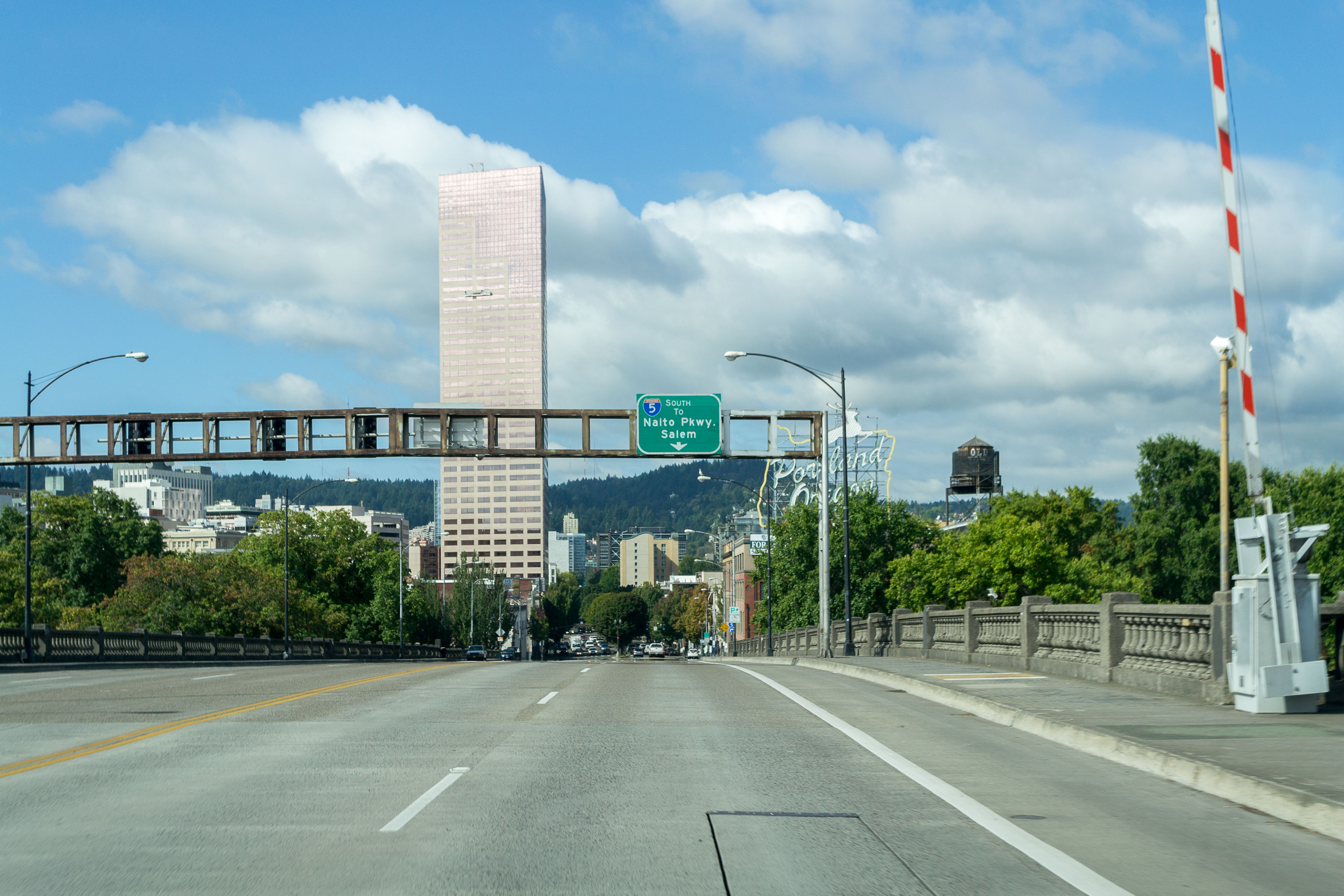 Crossing the Burnside Bridge, westbound. In the background is the U.S. Bancorp Tower.